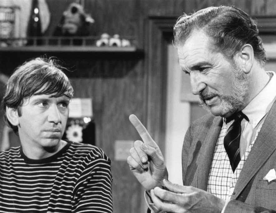 Publicity photo from the television program The Good Guys. Vincent Price guest-stars as the local health inspector who tells Rufus (Bob Denver) the diner needs to be cleaned up before his license is renewed.